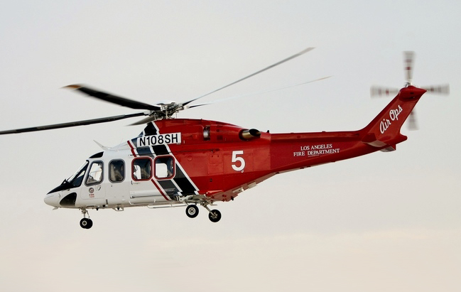 LAFD Fire 5 lifts off from Van Nuys airport